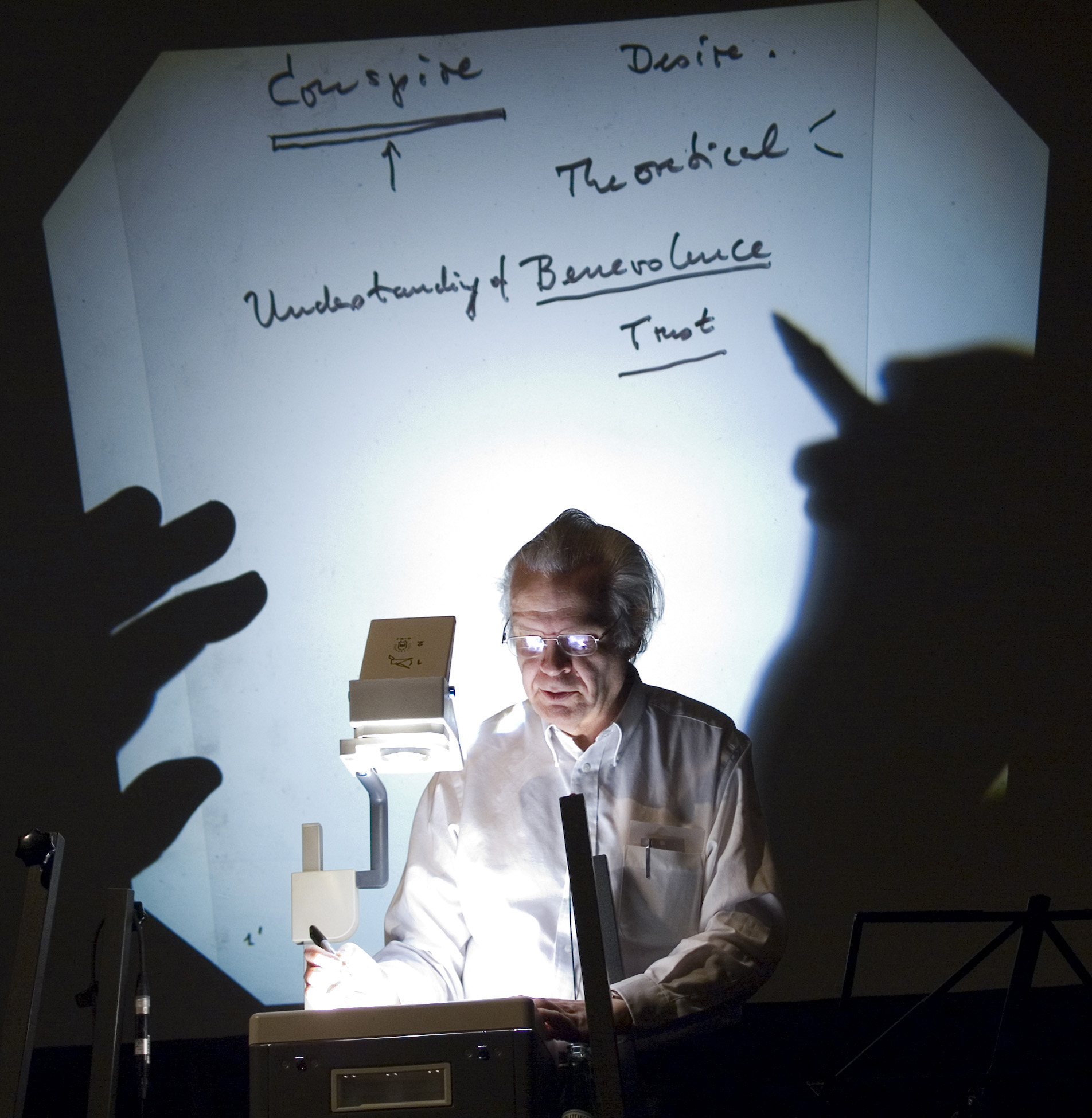 Otto E. Rössler at transmediale.08